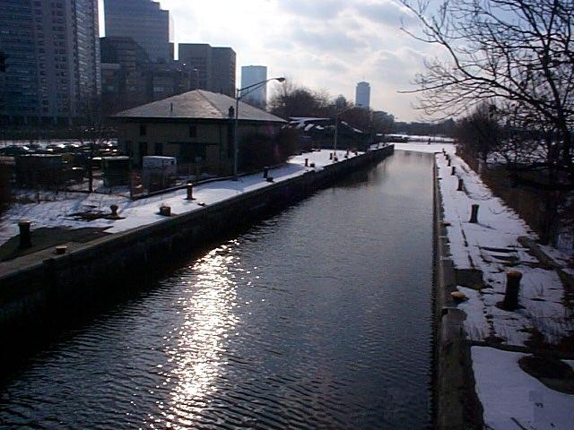 Photo of the original lock for the Charles River in Boston as bordered by Nashua Street Park on the south and Charles Hayden Planetarium to the north and positioned just west of the Charles River Dam Bridge. The old lock on the Charles River allowed boat access from the Charles River to Boston Harbor. Lock services subsequently were relocated about a quarter mile east to the Charles River Dam and incorporated as three parallel locks on the site of the old Warren Bridge. The photo is a view looking upstream.